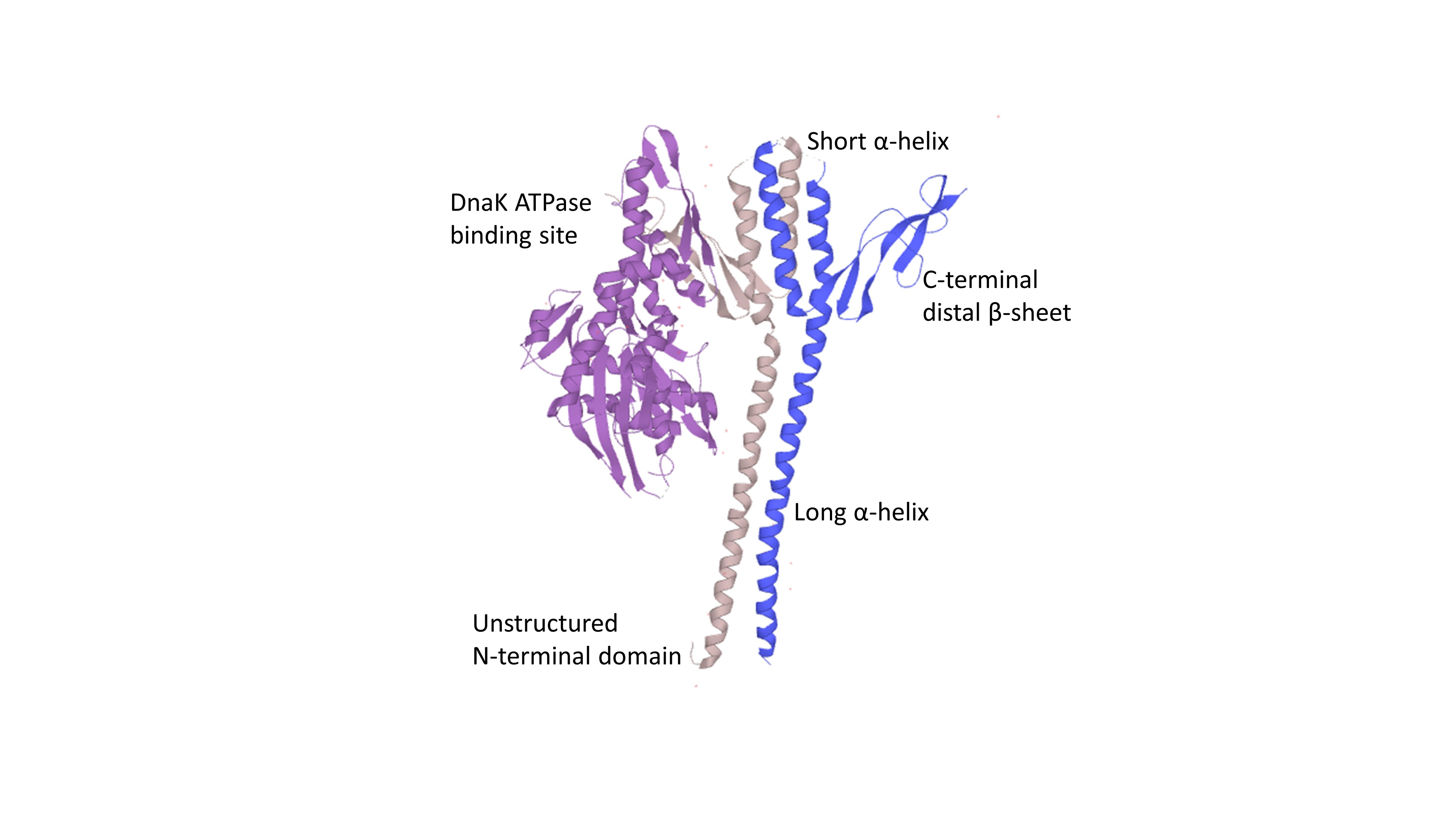 Annotated GrpE structure at 2.8A shown interacting with ATPase binding domain of DnaK